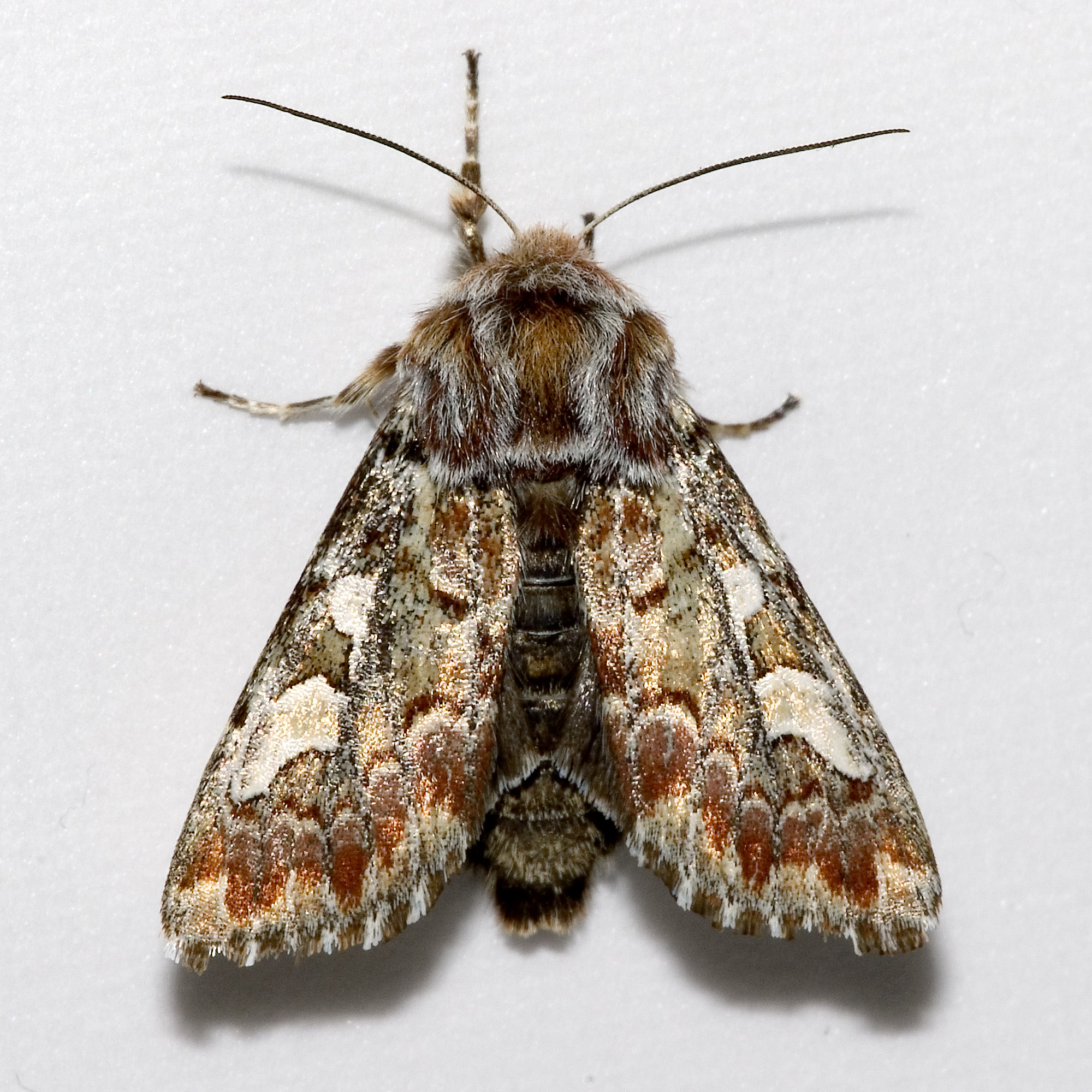 Pine Beauty, Panolis flammea (Denis & Schiffermüller, 1775)